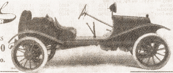 1915 Real Light Car